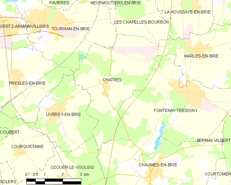 Map of French municipality Châtres